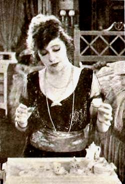 Still from the American film Young Mrs. Winthrop (1920) with Ethel Clayton, page 3096 of the April 3, 1920 Motion Picture News.